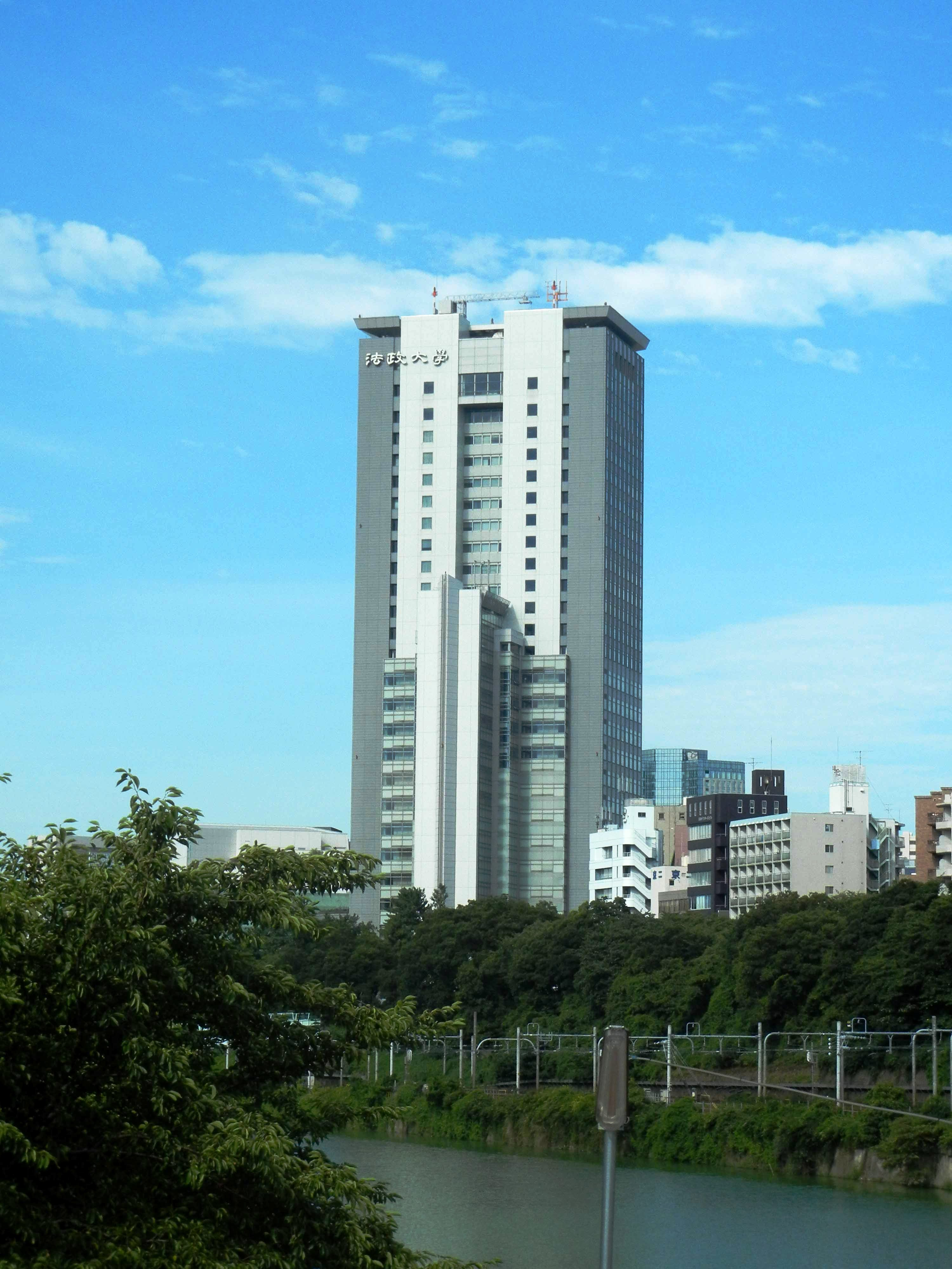 Hosei University Boissonade Tower